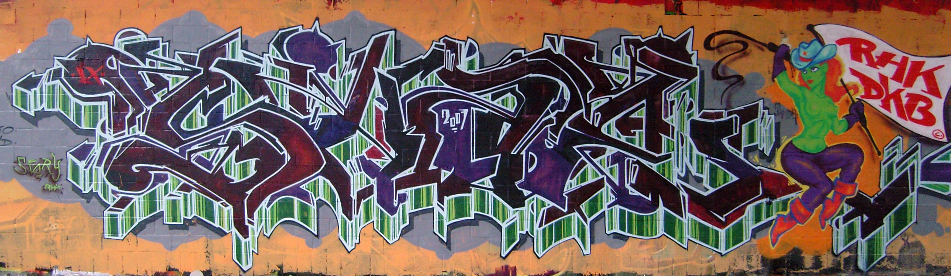 Wildstyle Graffiti in Berlin, Germany